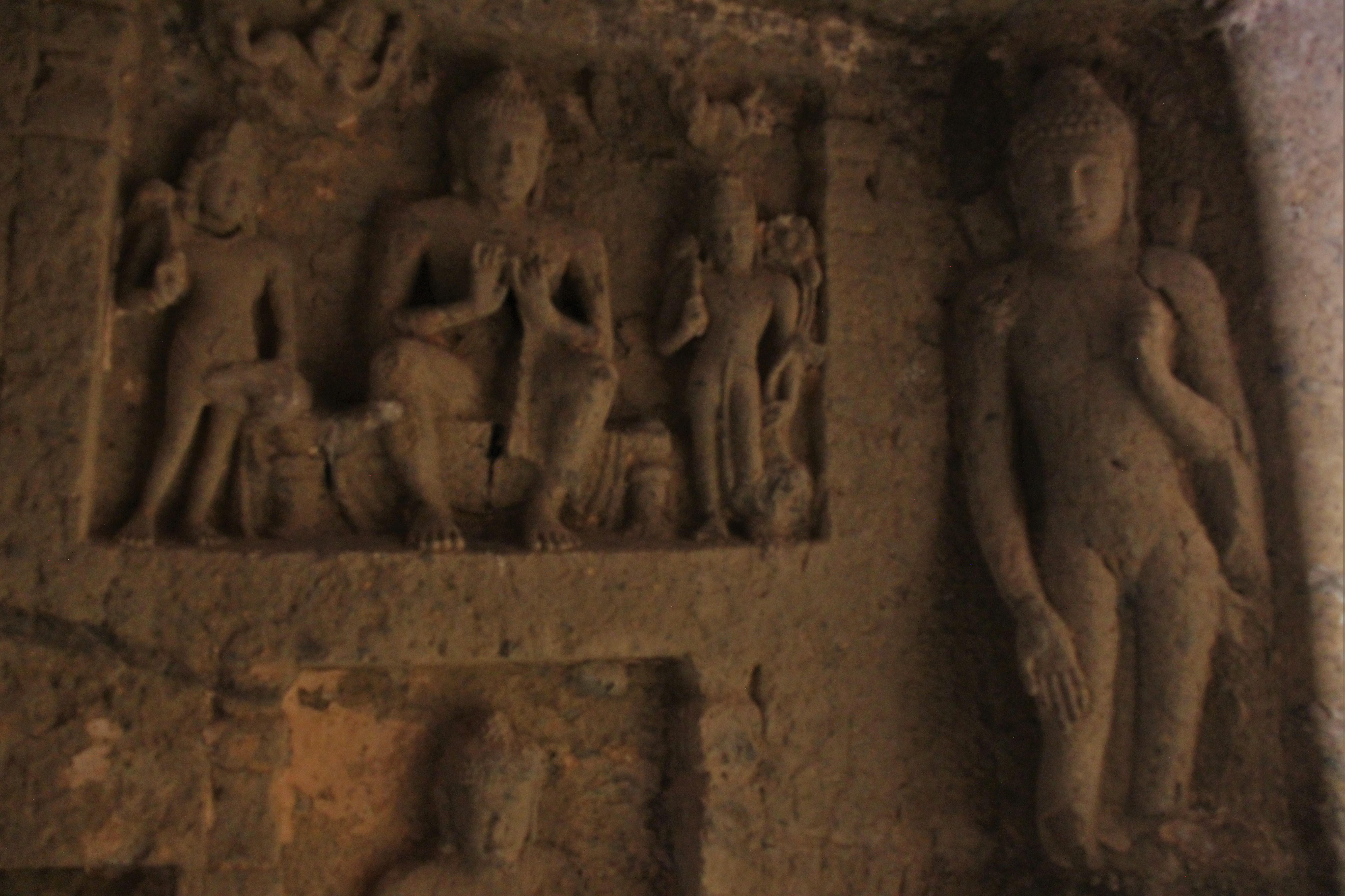 Statue inside cave 41 of Kanheri Caves